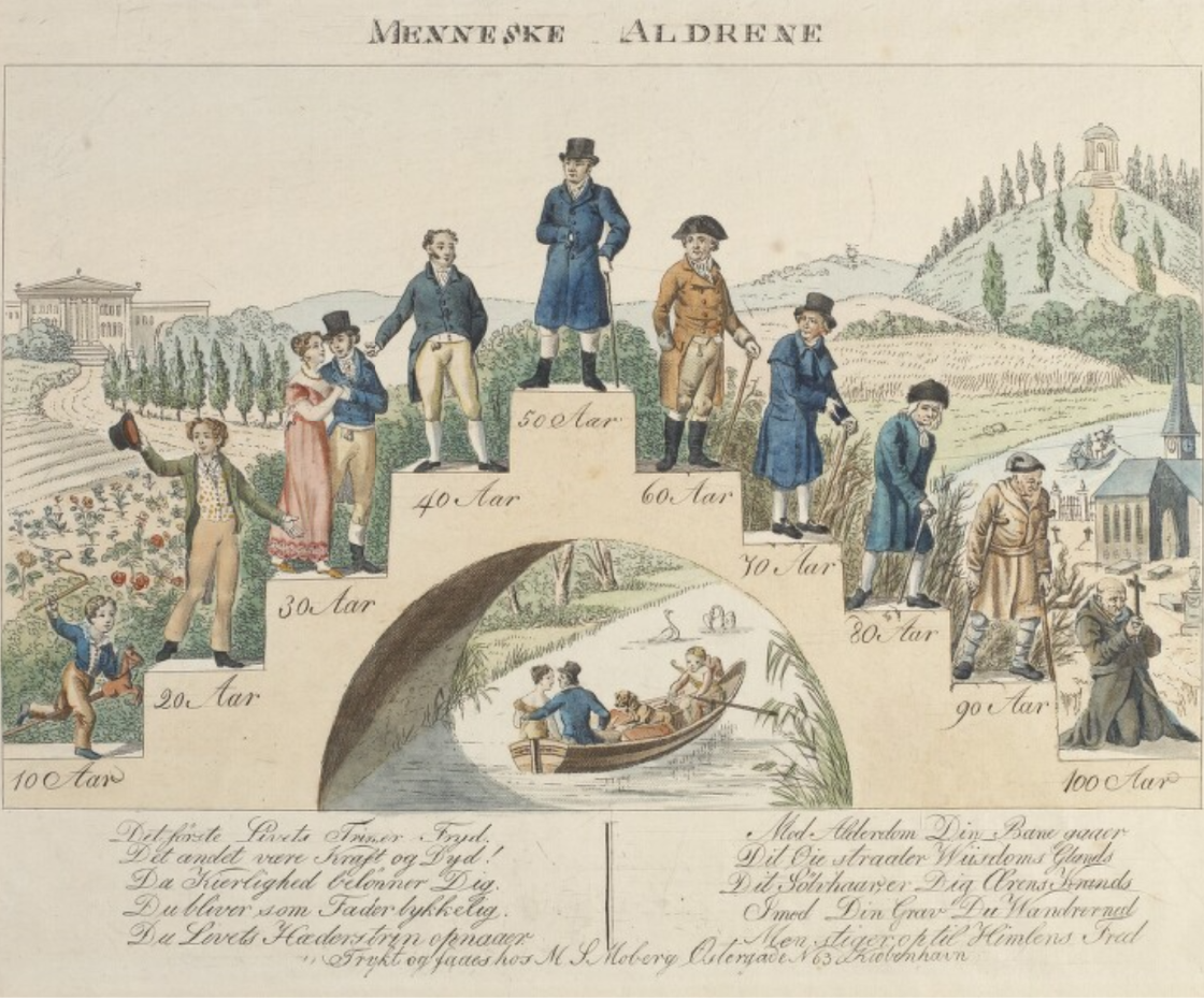 C.W. Eckersberg: Ages of Man. Allegorical image of the aging of man.